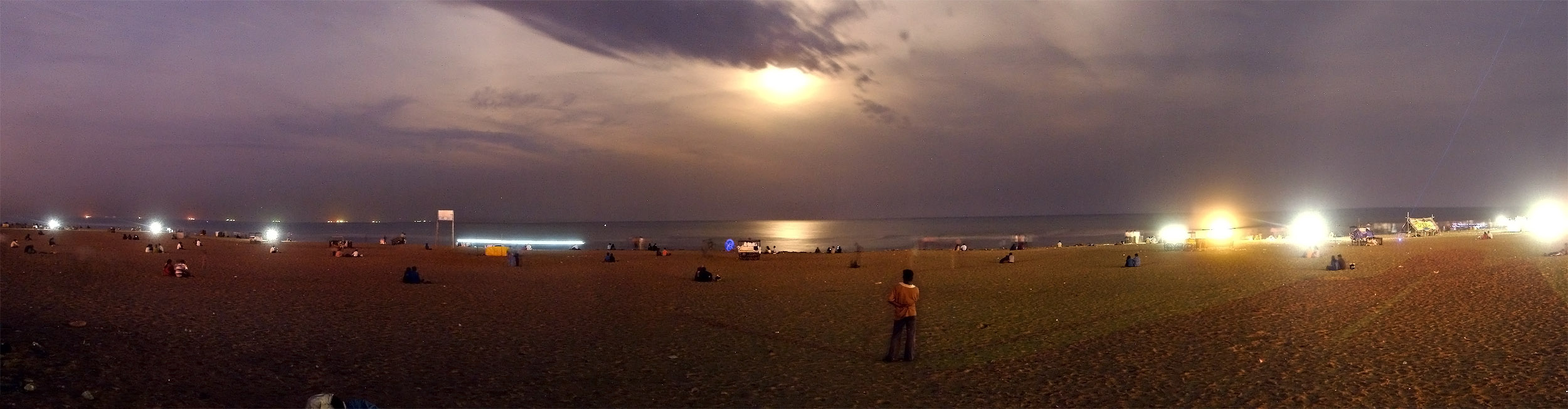 A panoramic view of Elliots Beach, Chennai in the moonlight